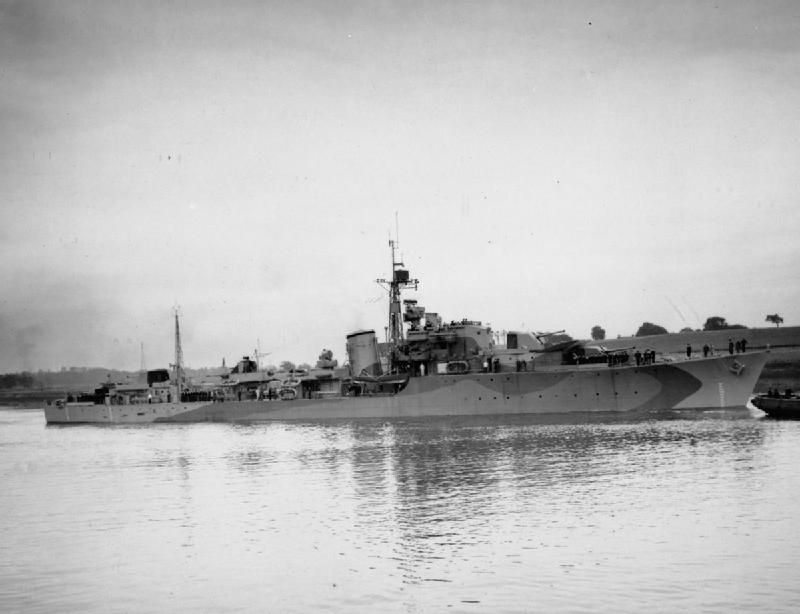 Photograph of British destroyer HMS Hardy.